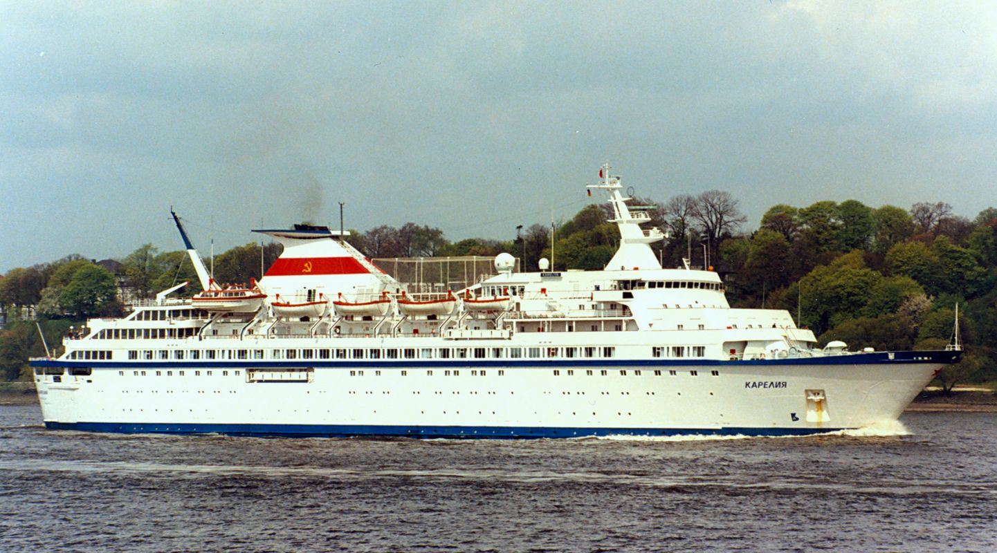 The cruise ship Kareliya at Hamburg in May 02, 1992.